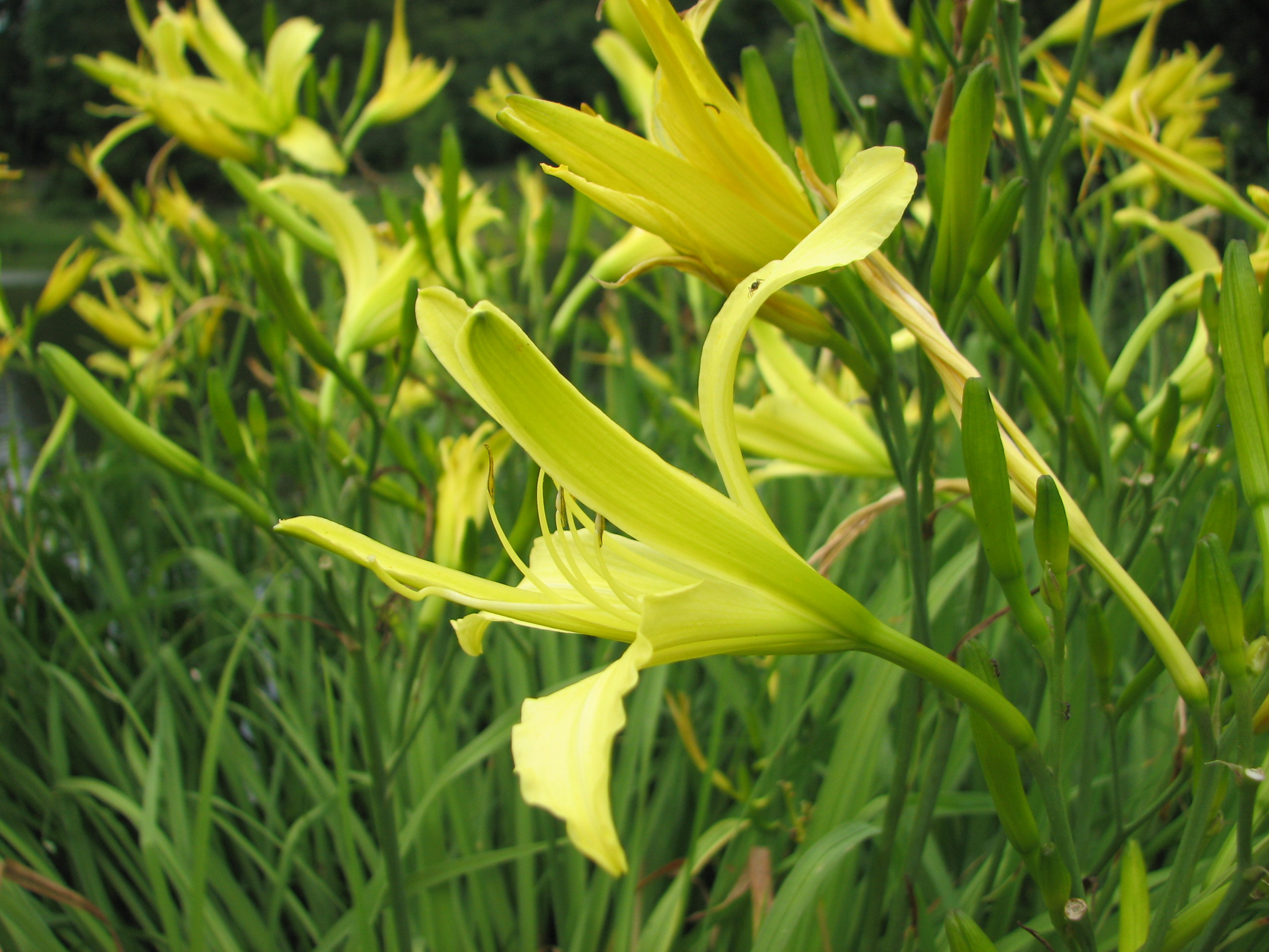 Hemerocallis citrina